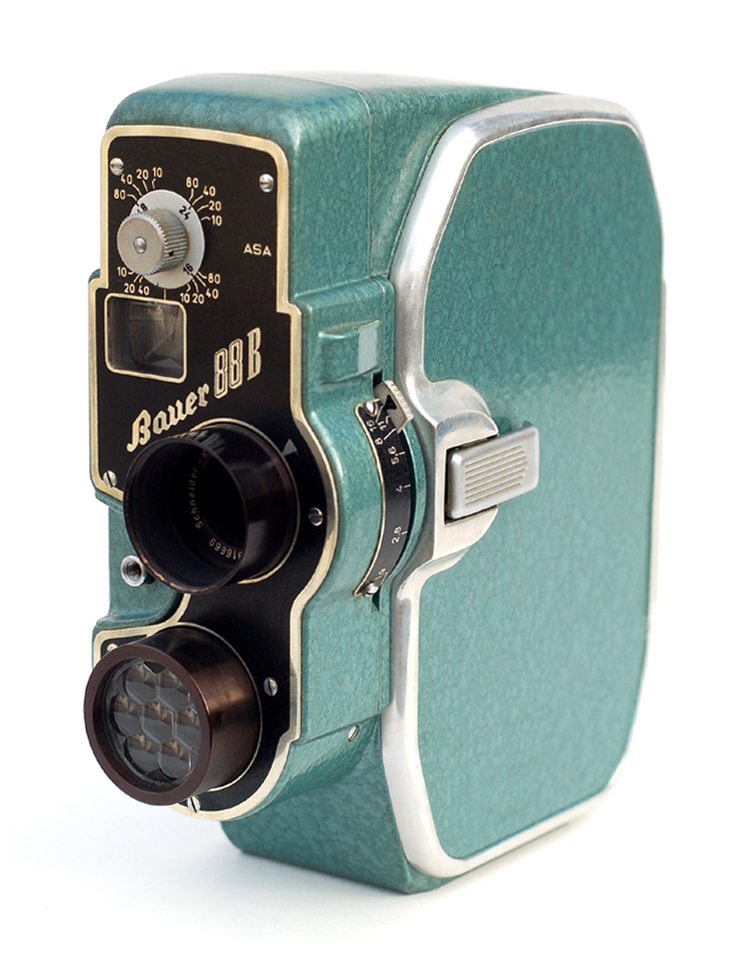 As I've said before, I generally don't collect movie cameras, but there are a few that are just too attractive to be ignored. Such is the case with the Bauer 88B, made in Germany c1954. It likes 8mm spool film, good conversation, and long walks on the beach.